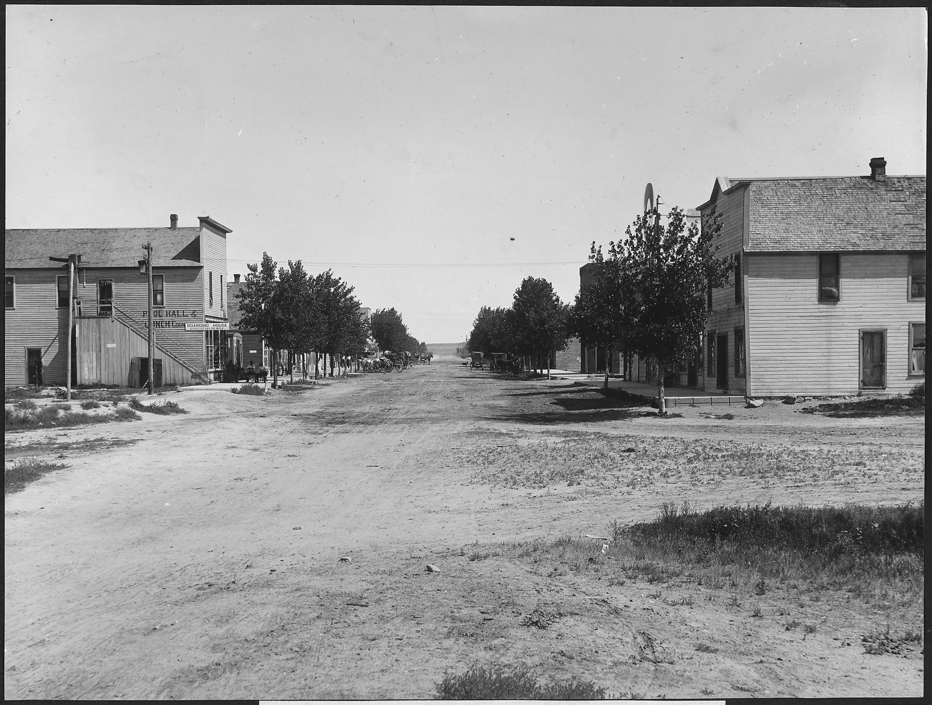 Scope and content: Photograph from Volume One of a series of photo albums documenting the construction of Pathfinder Dam and other units on the North Platte Project in Wyoming and Nebraska.